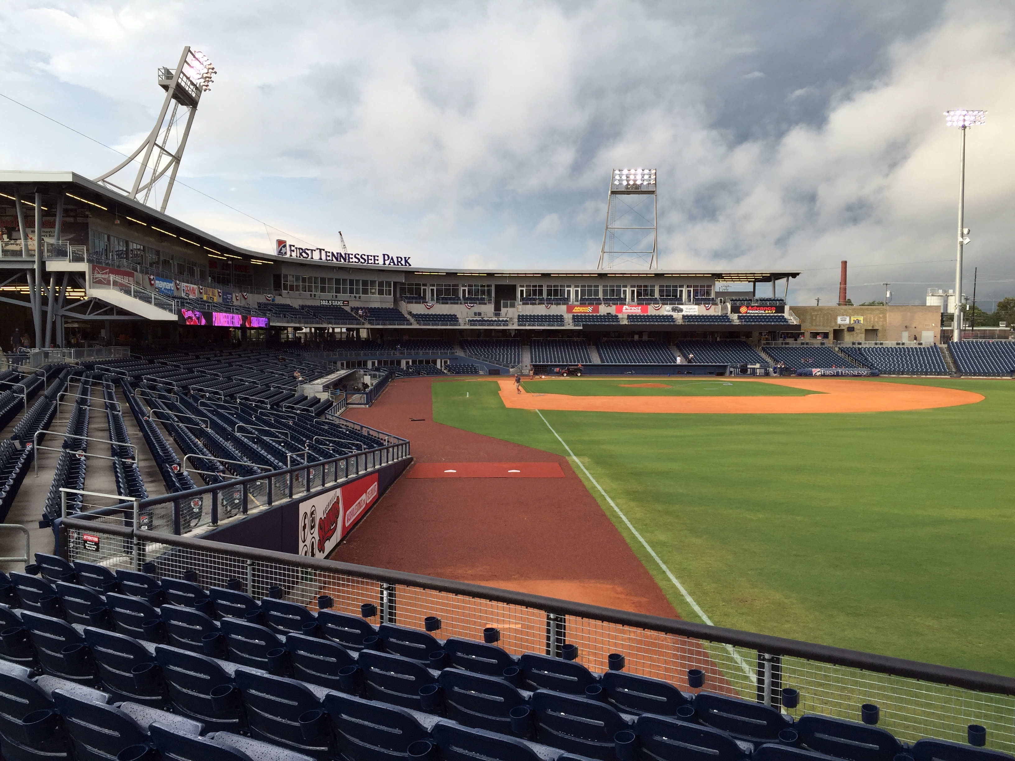 First Tennessee Park on September 10, 2016, before Game 4 of the 2016 American Conference Championship Series